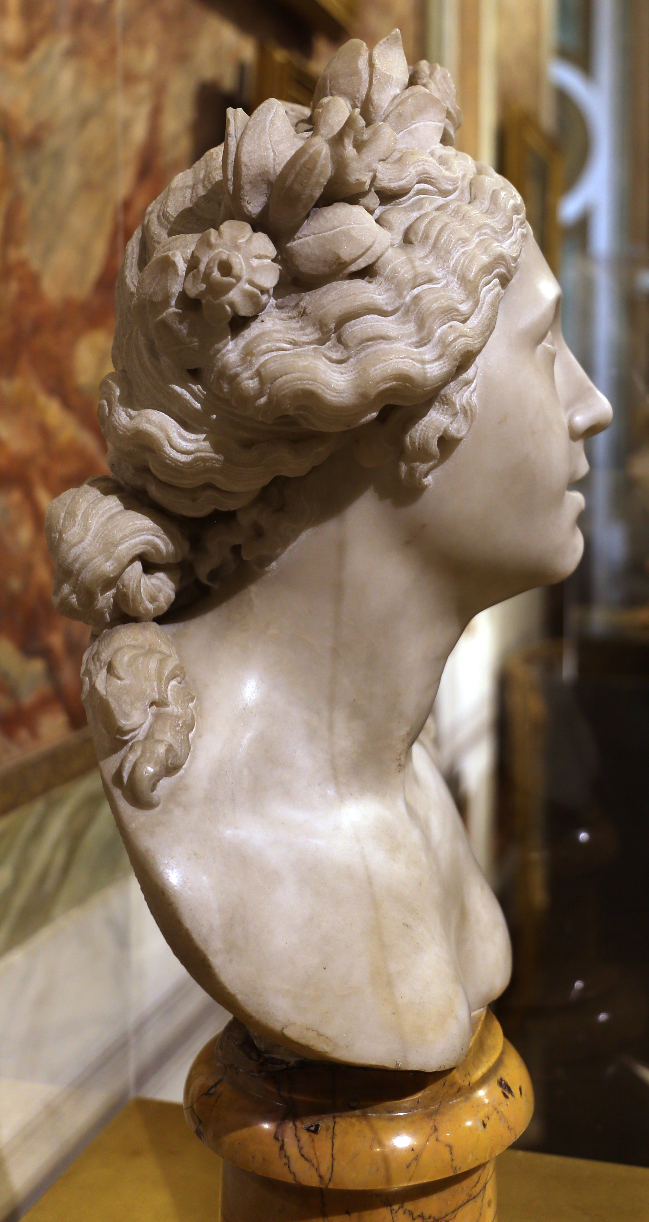 Mostra Gianlorenzo Bernini, Roma 2018